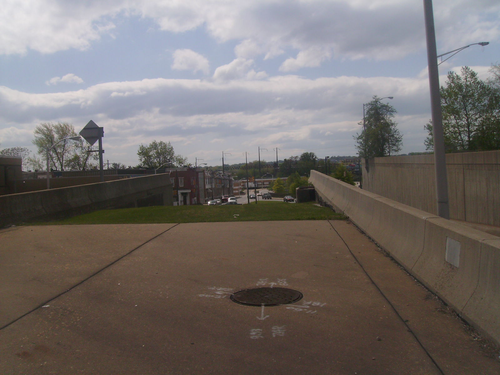 The abandoned western stub end of unfinished Interstate 170 in Baltimore, Maryland